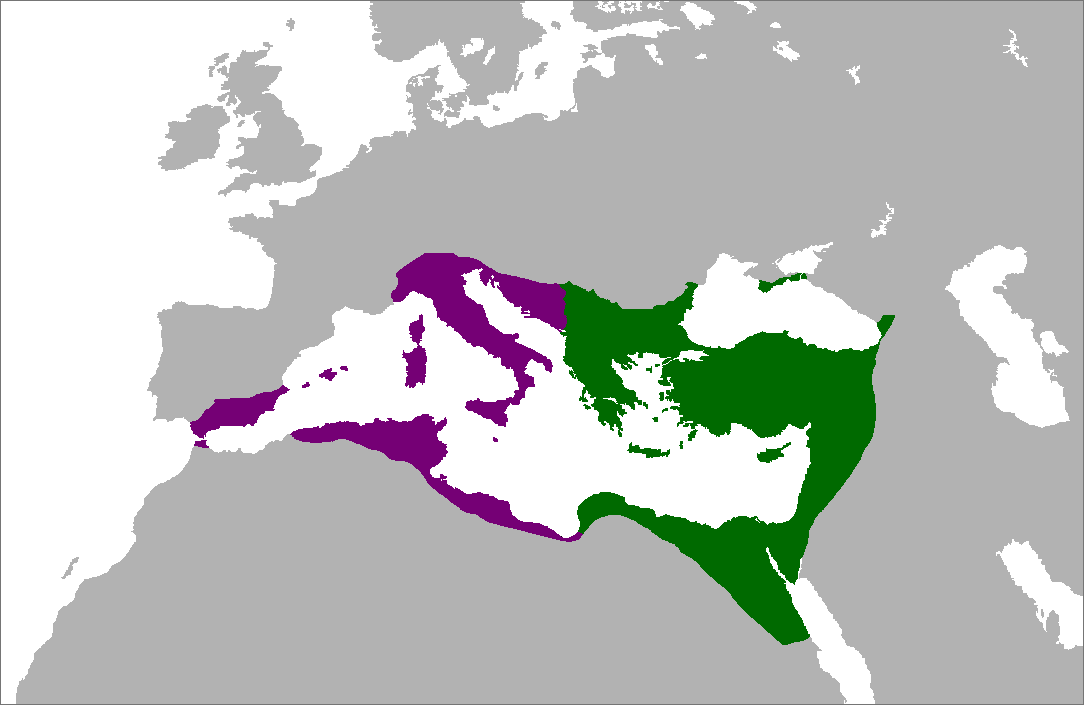 Map of Byzantine Empire at it greatest extent in the 6th century. Territories in purple were reconquered during the reign of Justinian I.